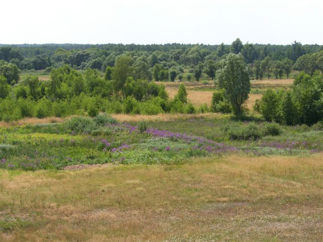 Wolka Ligezowska surroundings.